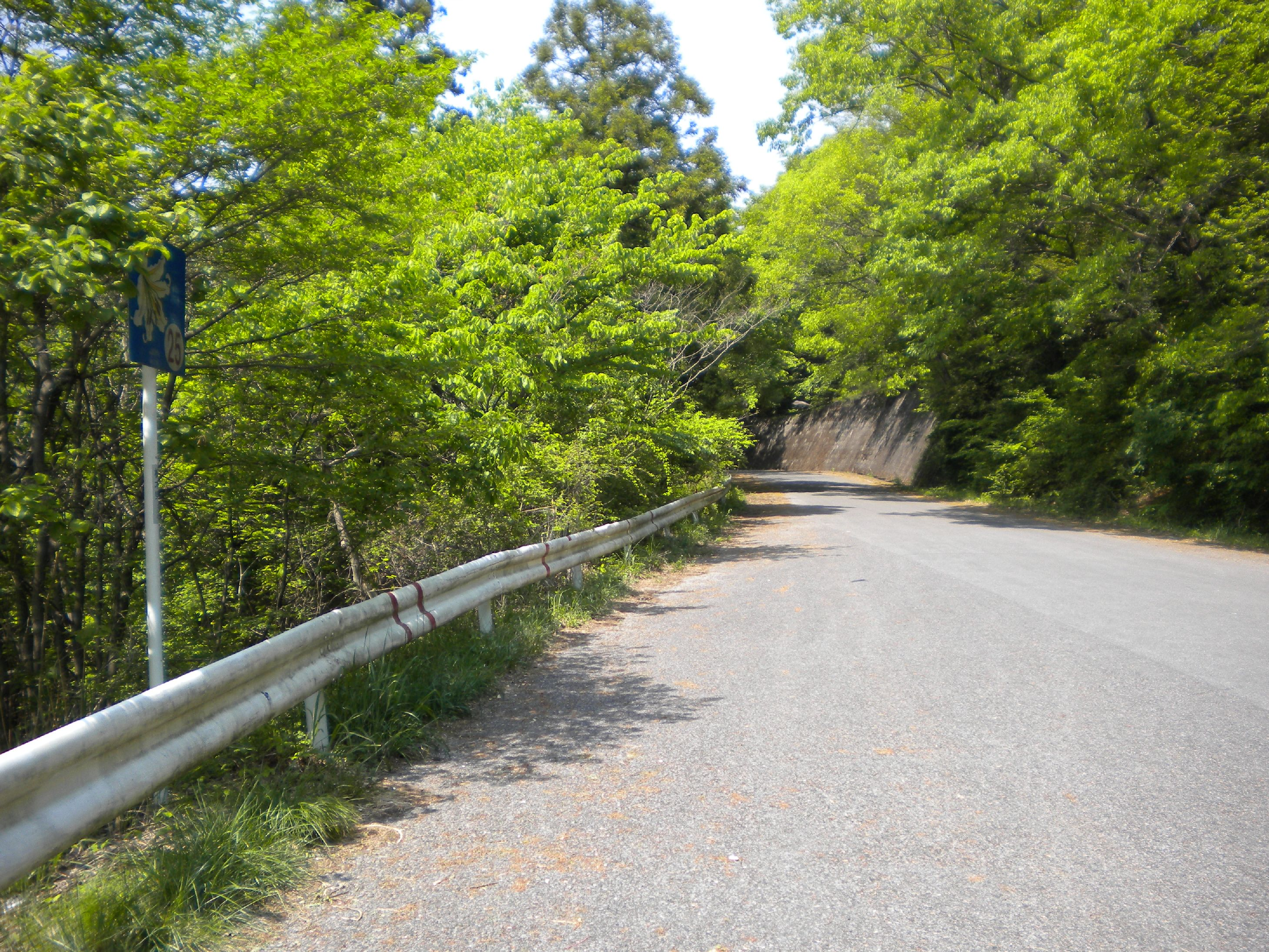 The Tochigi Prefectural Road Route 262 in Kamioba, Mashiko Town